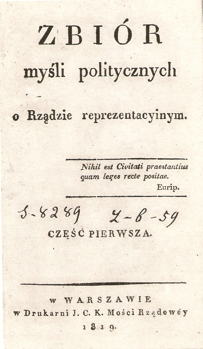 Józef Wybicki, "Zbiór myśli politycznych o rządzie reprezentacyjnym" (1819)